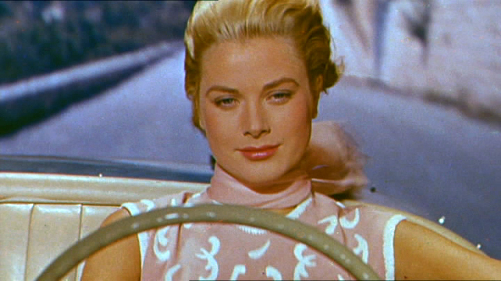 Screenshot of Grace Kelly from the trailer of the film To Catch a Thief (film)